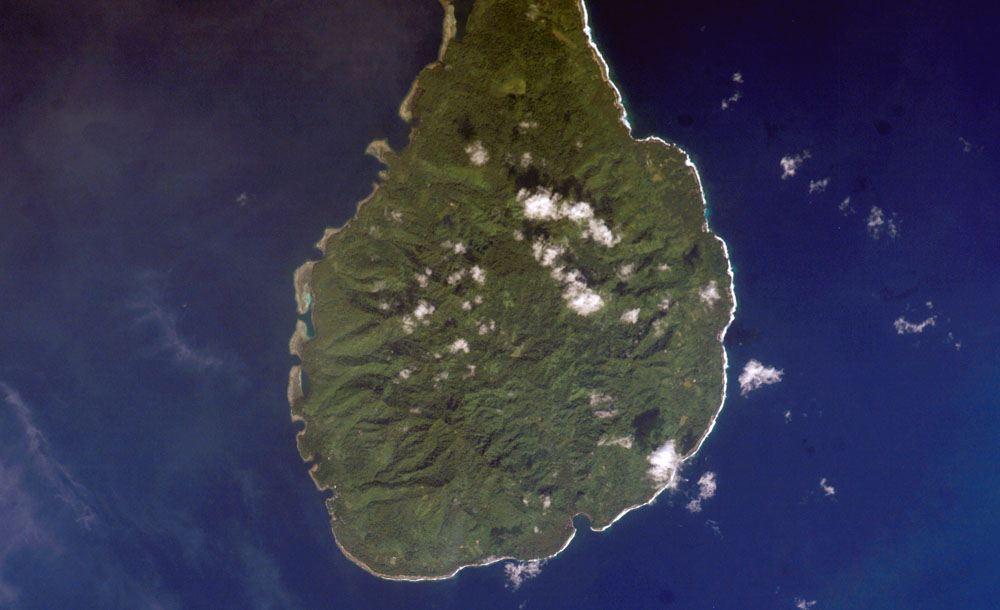 South part of Tabar island, PNG